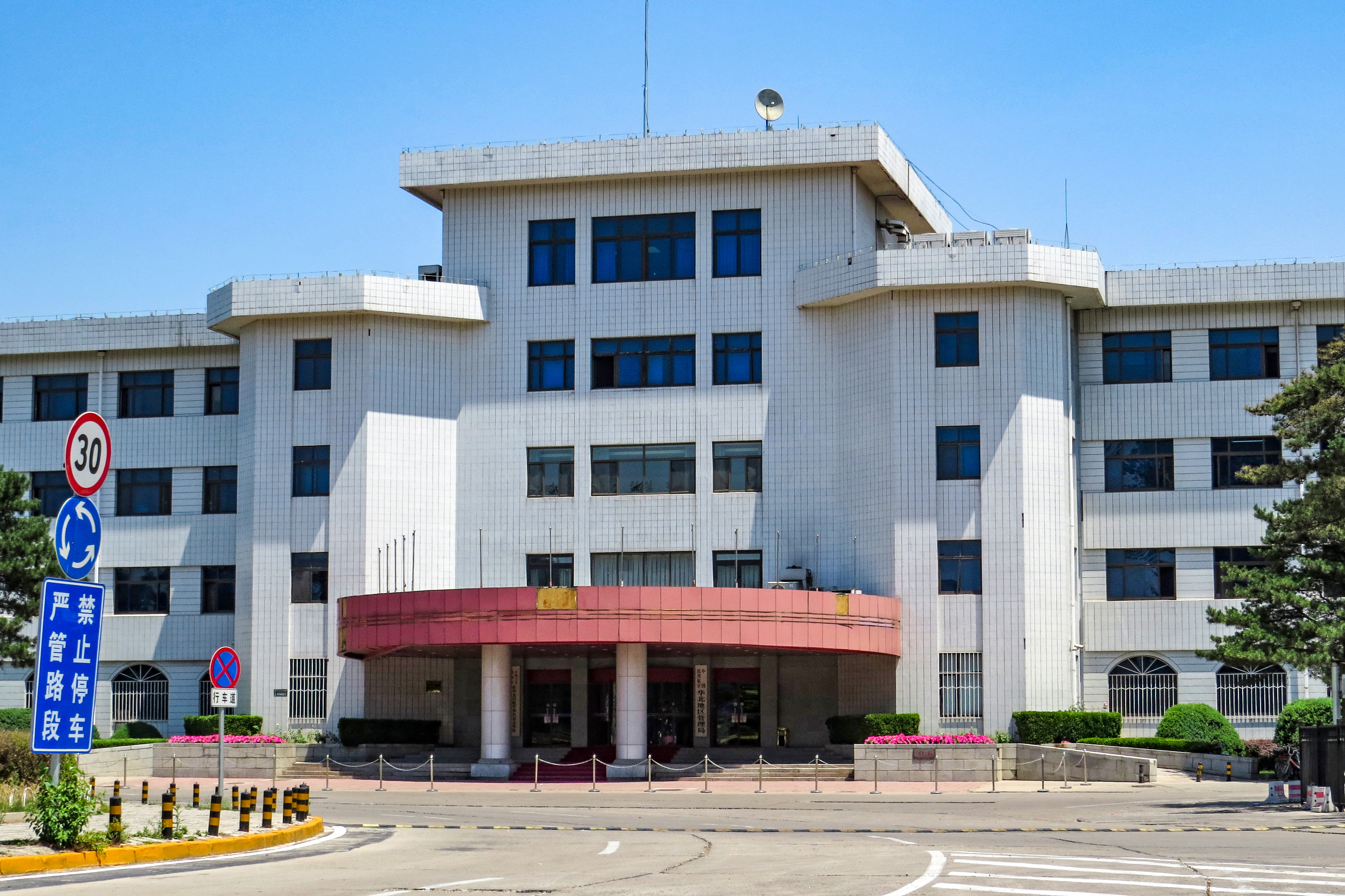 Near the terminus of 359.